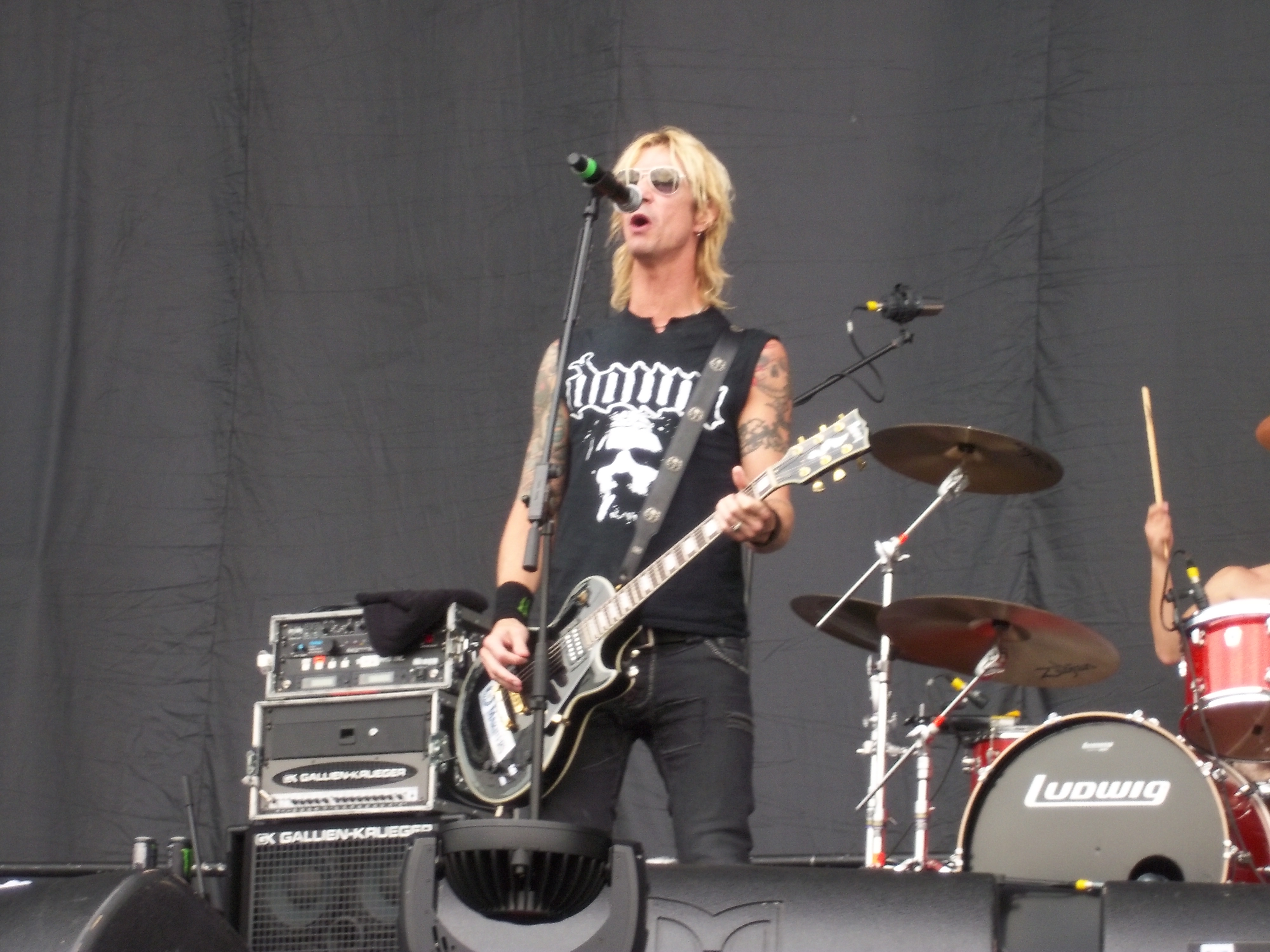 Duff McKagan playing live with the band Loaded